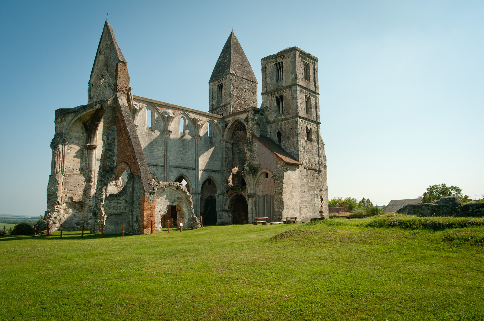 Premontrei prépostsági templom romja (Zsámbék, Régi templom u.) This is a photo of a monument in Hungary. Identifier: 7623